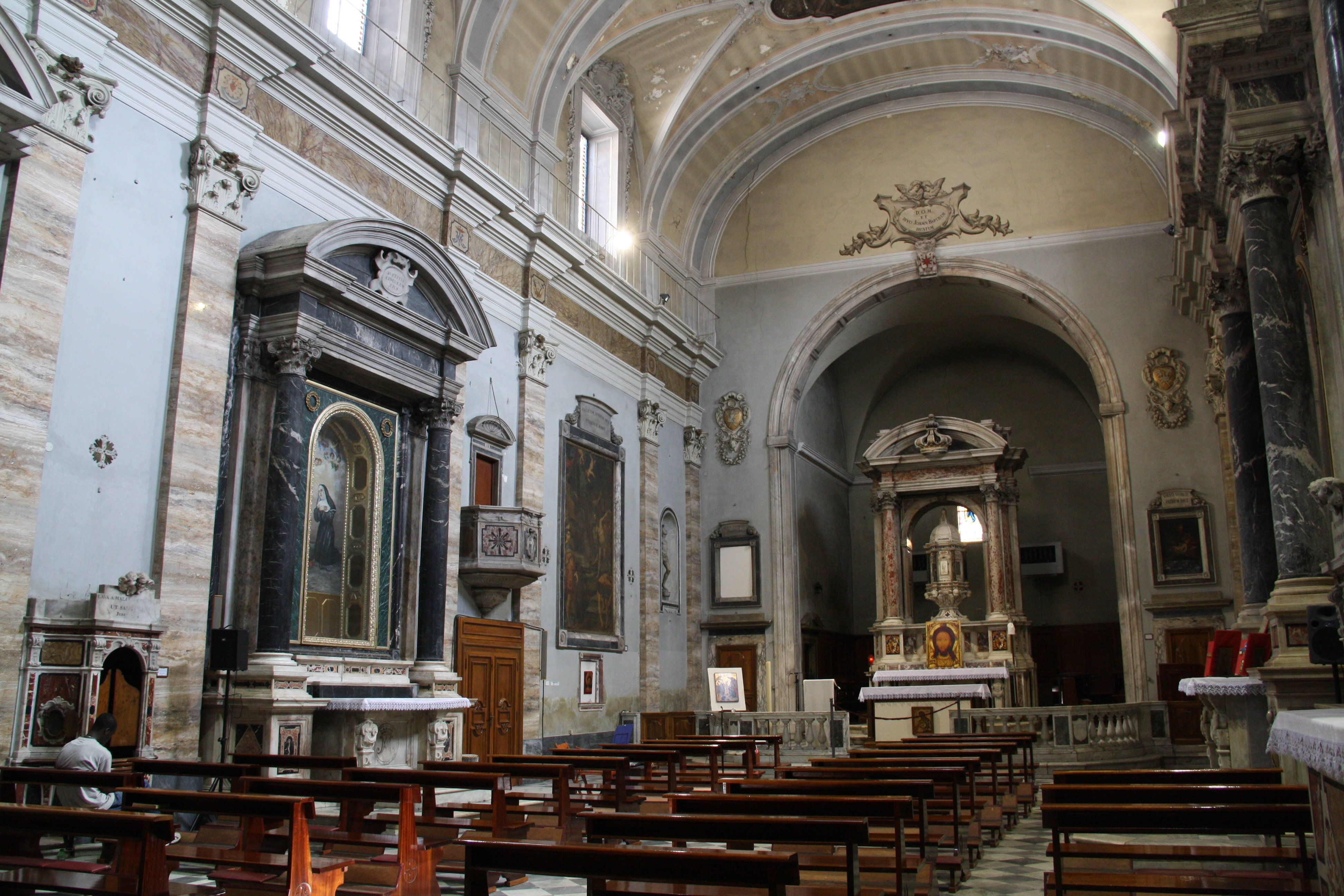 Italy, Livorno. Chiesa di San Giovanni Battista .